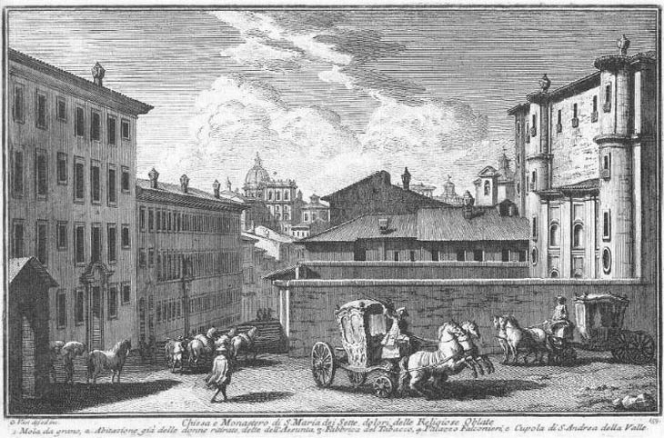 1) Mill; 2) Conservatorio dell'Assunta; 3) Tobacco factory; 4) Palazzo Falconieri and Dome of S. Andrea della Valle